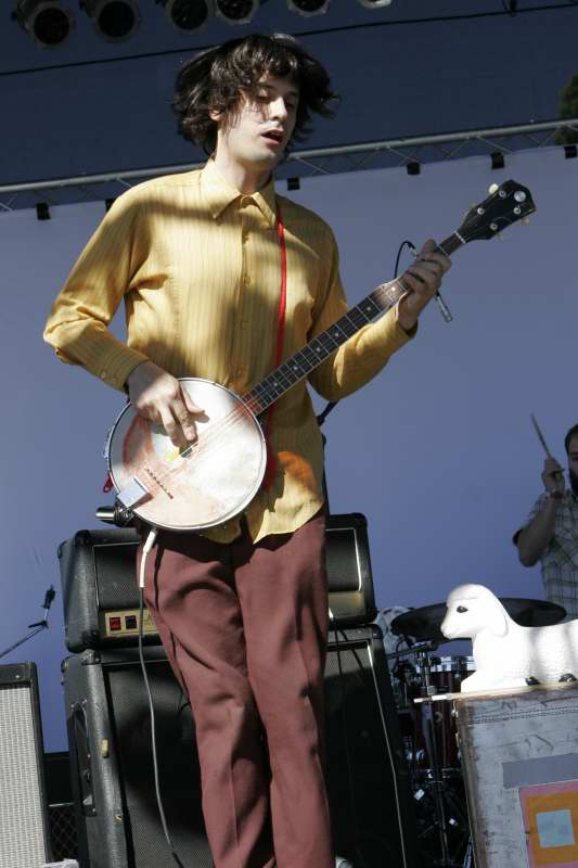 Julian Koster. public domain no rights reserved.